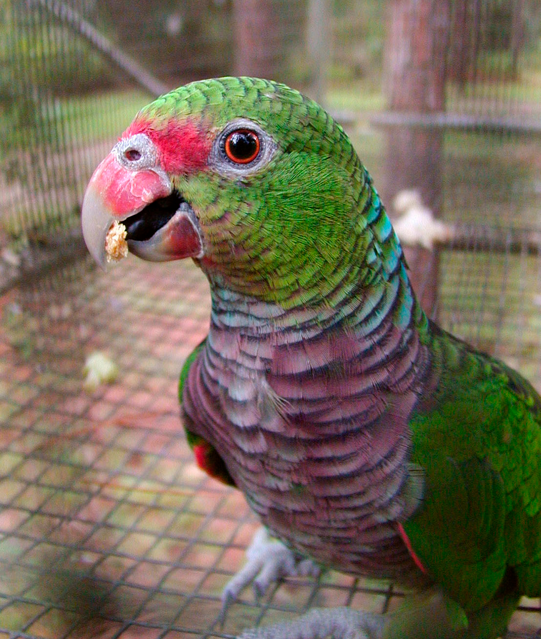 Vinaceous Amazon in captivity at the Rare Species Foundation Programme, Florida, USA. (Photographed at Rare Species)